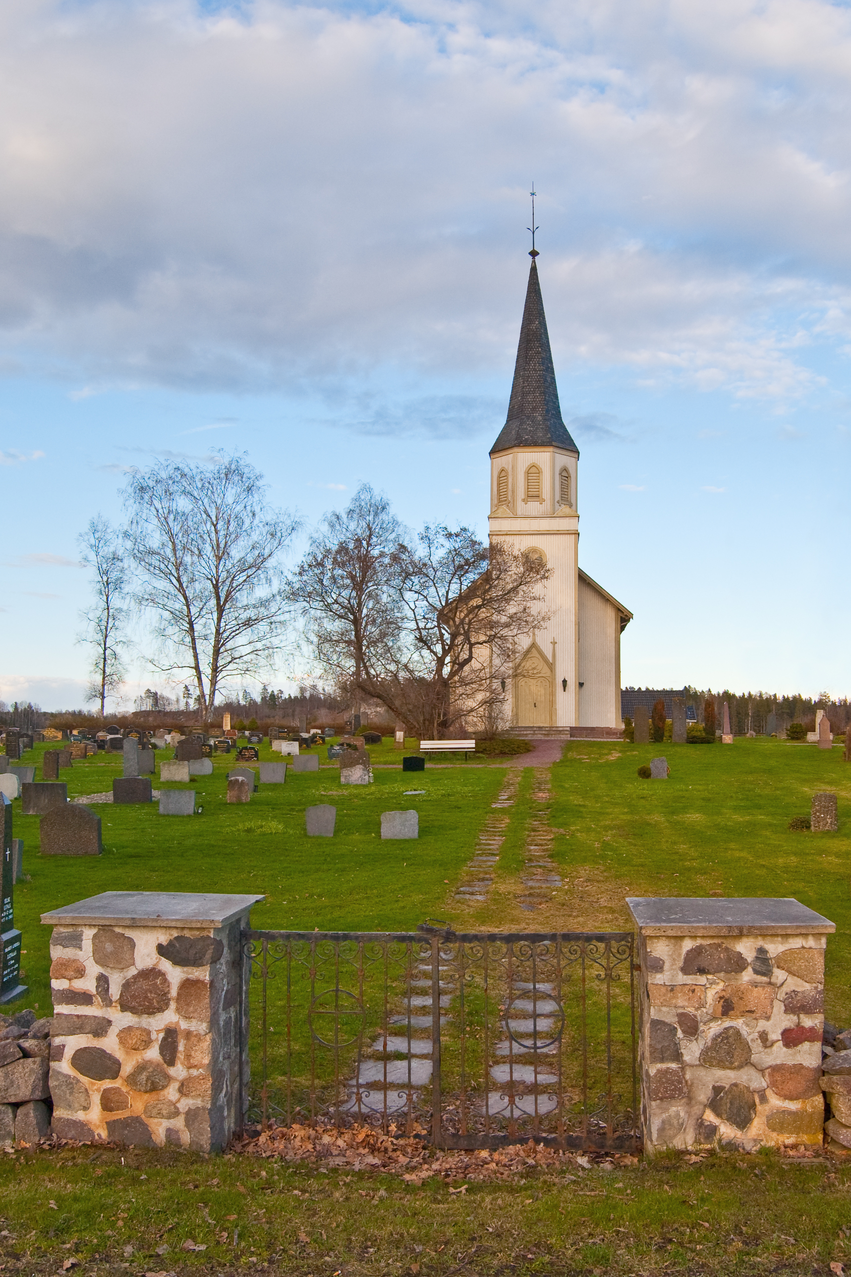 Undrumsdal Church in Re, Vestfold, Norway